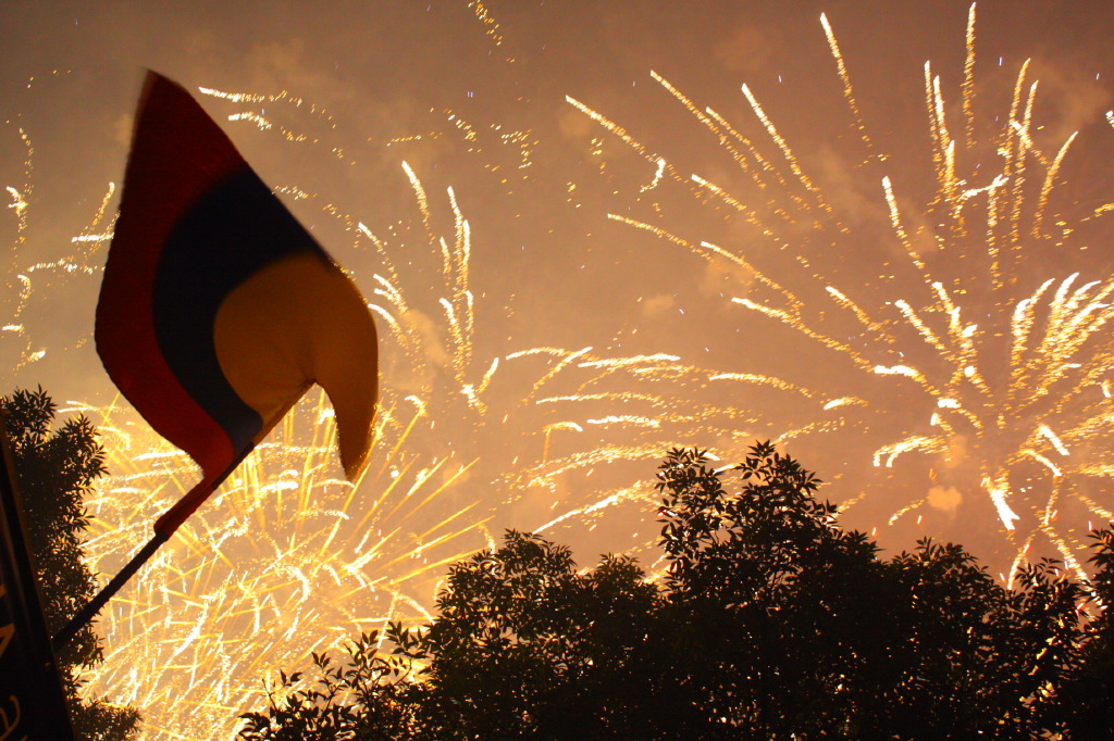 Fireworks in Medellín, as part of Colombia Bicentennial, at night of July 20th, 2010.